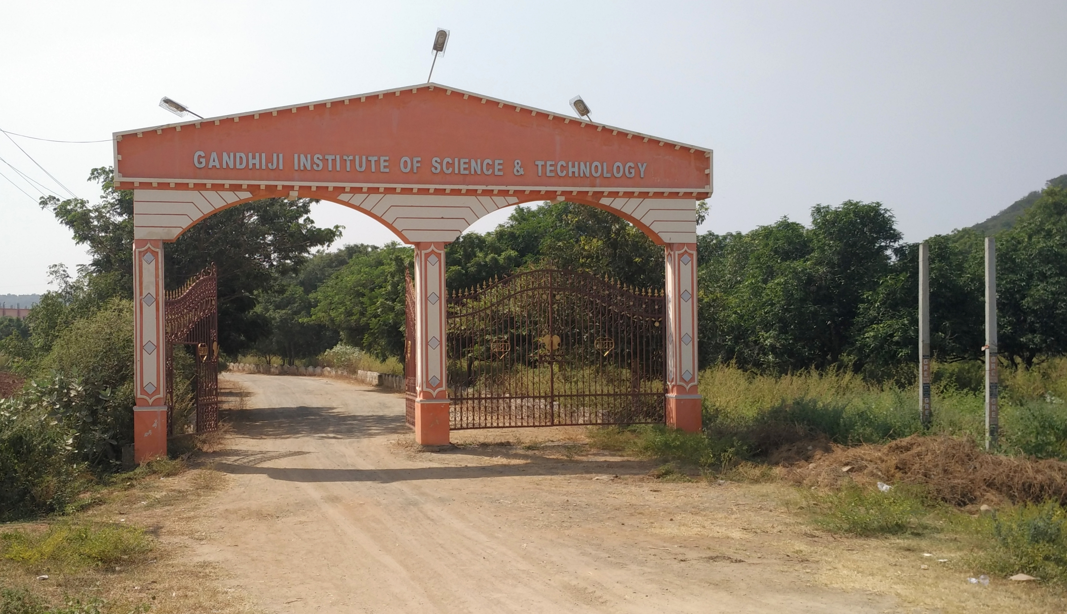 Gandhiji Institute of Science & Technology Bhimavaram, Vatsavai (M) Krishna, A.P